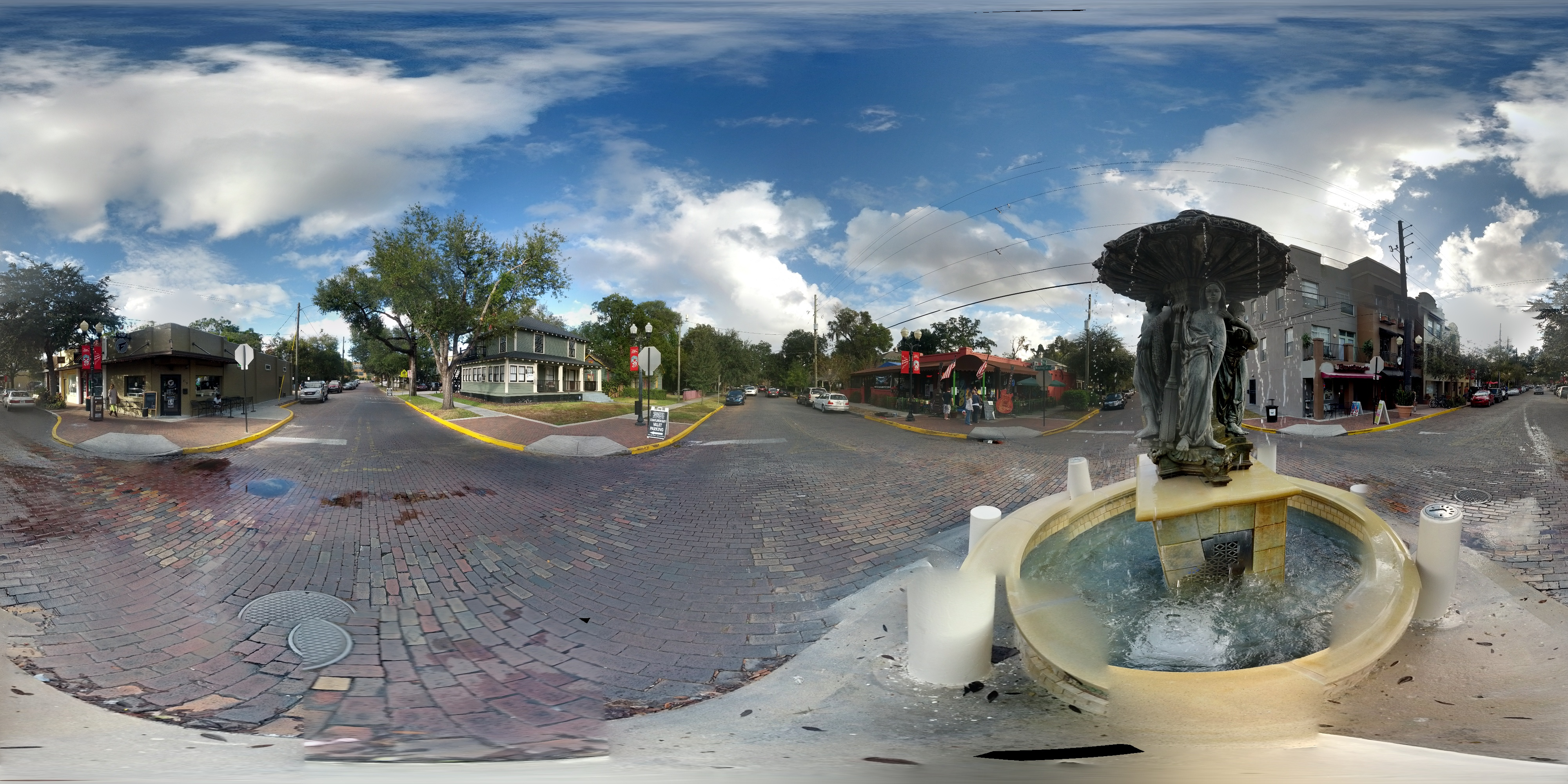 Panoramic photograph taken from the corner of E Washington Street and N Hyer Ave in the Thornton Park neighborhood of Orlando, Florida.